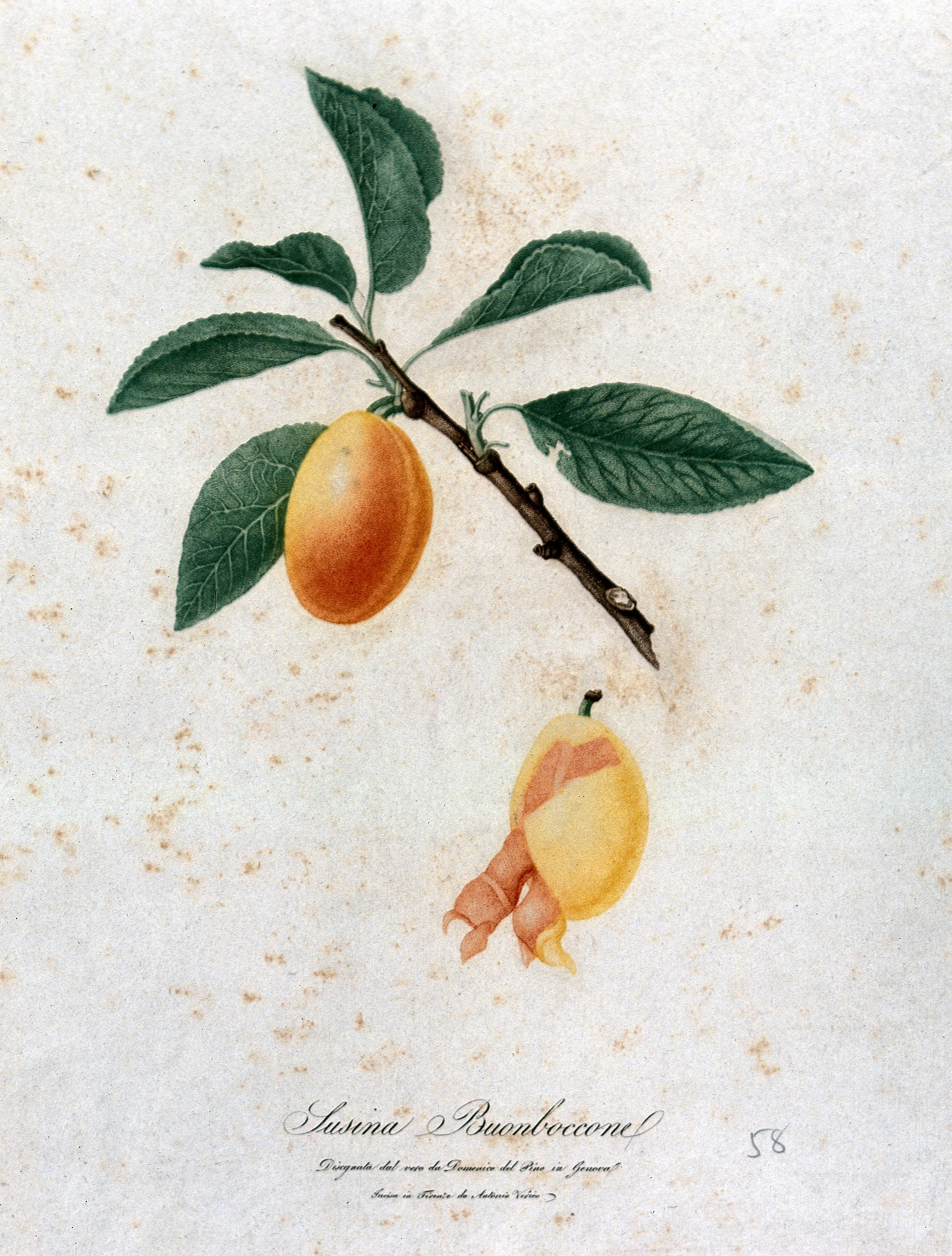 Plum (Prunus species, Susina Buonboccone): fruiting branch with partly peeled fruit. Colour stipple engraving by A. Verico, c. 1817, after D. del Pino. Iconographic Collections Keywords: Antonio Verico; Giorgio Gallesio; Domenico Del Pino